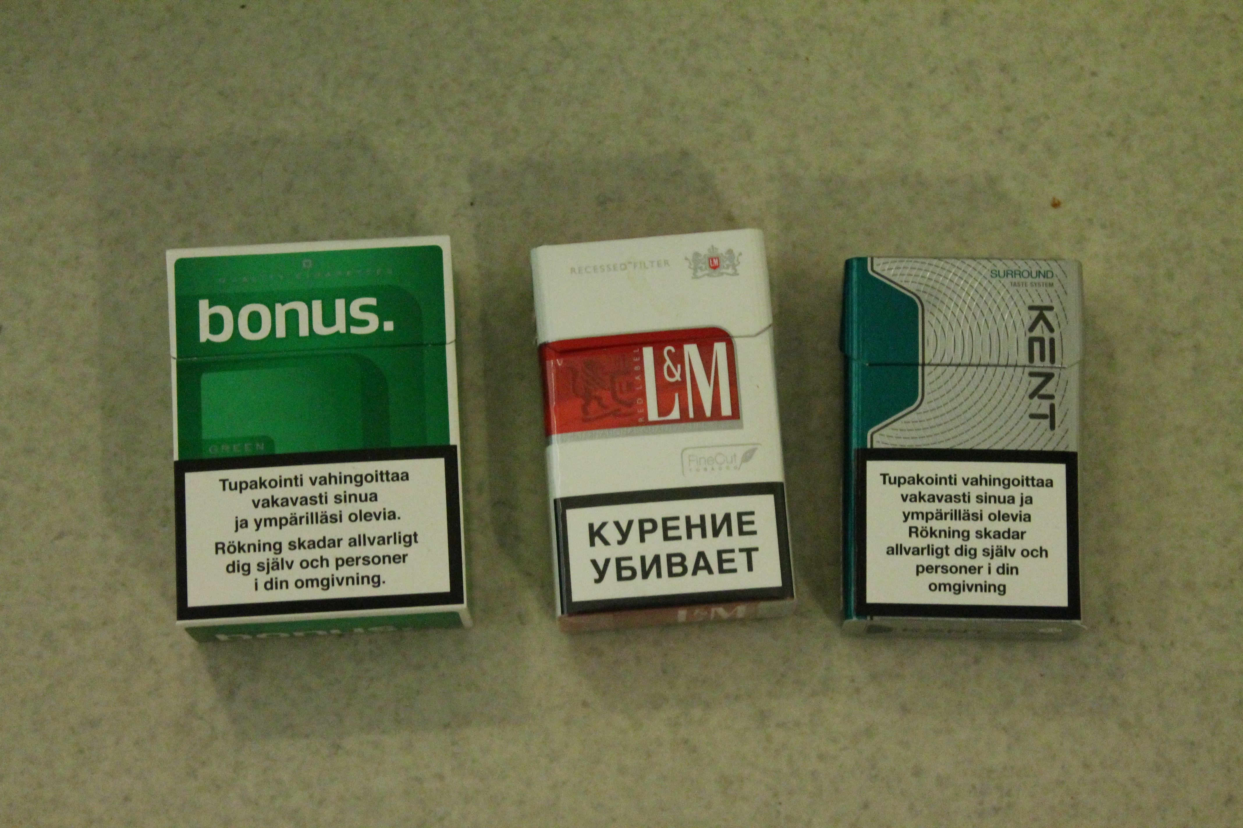 Cigarette boxes